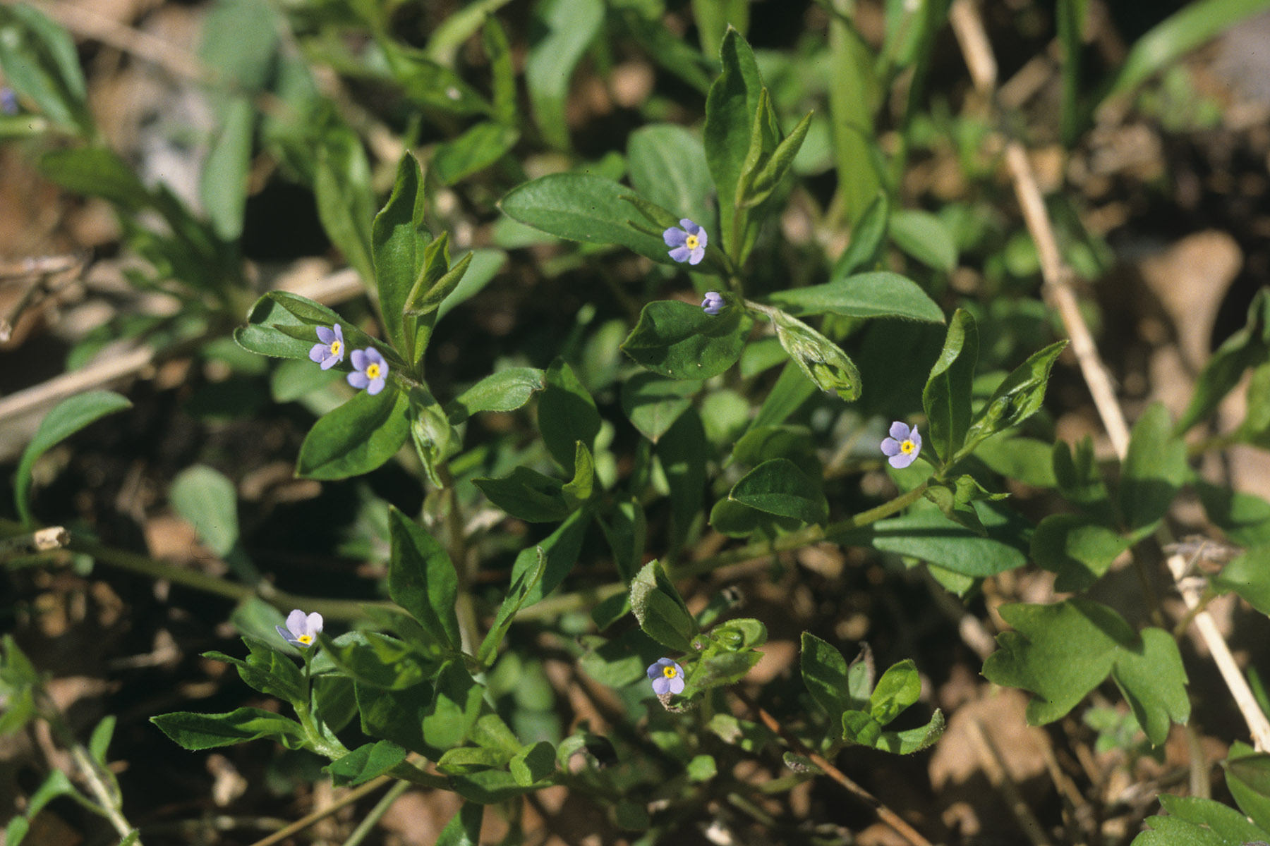 Omphalodes scorpioides Schrank - with flowers. Czech Republic, Palava